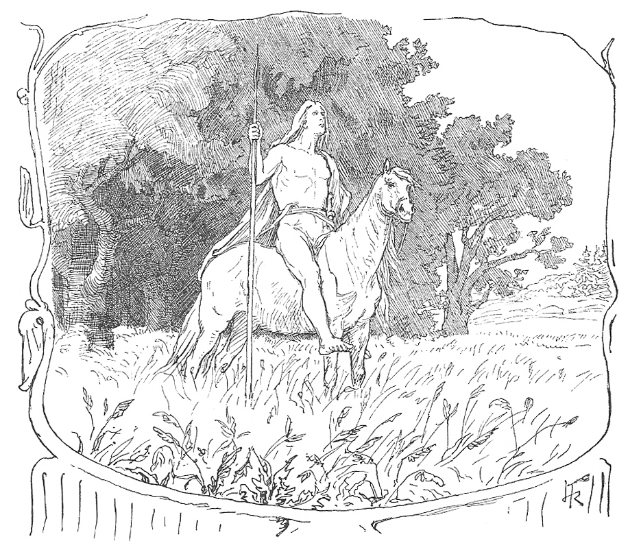 A depiction of the god Víðarr on horseback (1895) by Lorenz Frølich. Title not given in work.